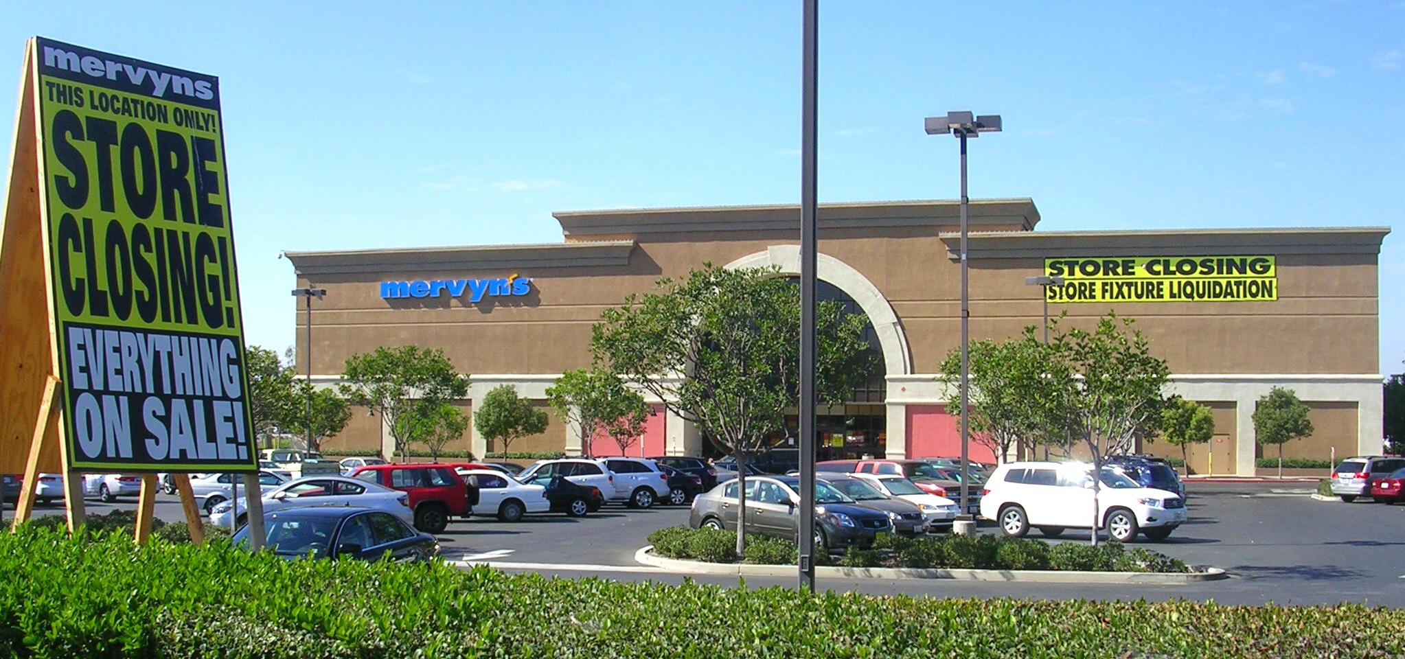 Exterior view of a Mervyns store at 3960 Barranca Parkway in Irvine, California with signage indicating the imminent disestablishment of the company. This store opened in 1988 and co-anchored (along with Target ) the then newly built Crossroads Shopping Center. The center's original white, salmon and teal design was remodeled with an earth-toned paint scheme in the late 1990’s/early 2000’s, which it currently sported when this picture was taken. View taken from southbound sidewalk on Culver Drive, looking northwest.Postscript: The department store building was demolished in late 2010 after lying vacant for nearly two years.